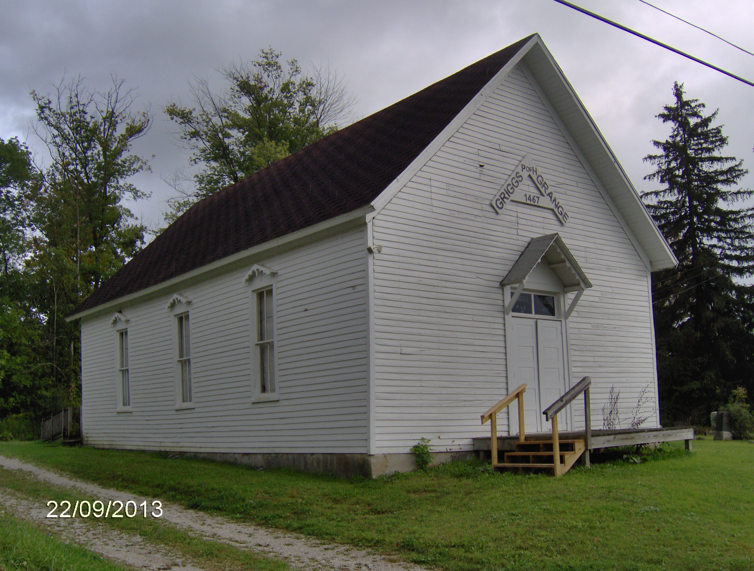 Griggs Grange No. 1467, 1467 Brown Rd., north of Jefferson Plymouth Township